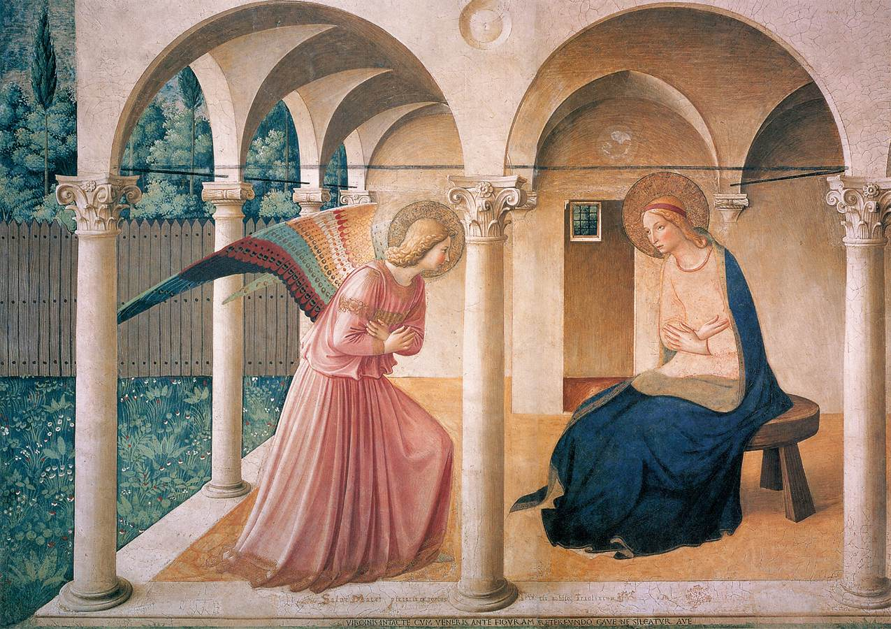 fresco cycle in San Marco, Florence: Annunciation